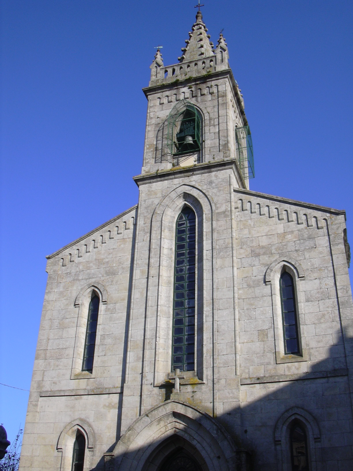 The "Igrexa Nova" (New Church) of Mondoñedo